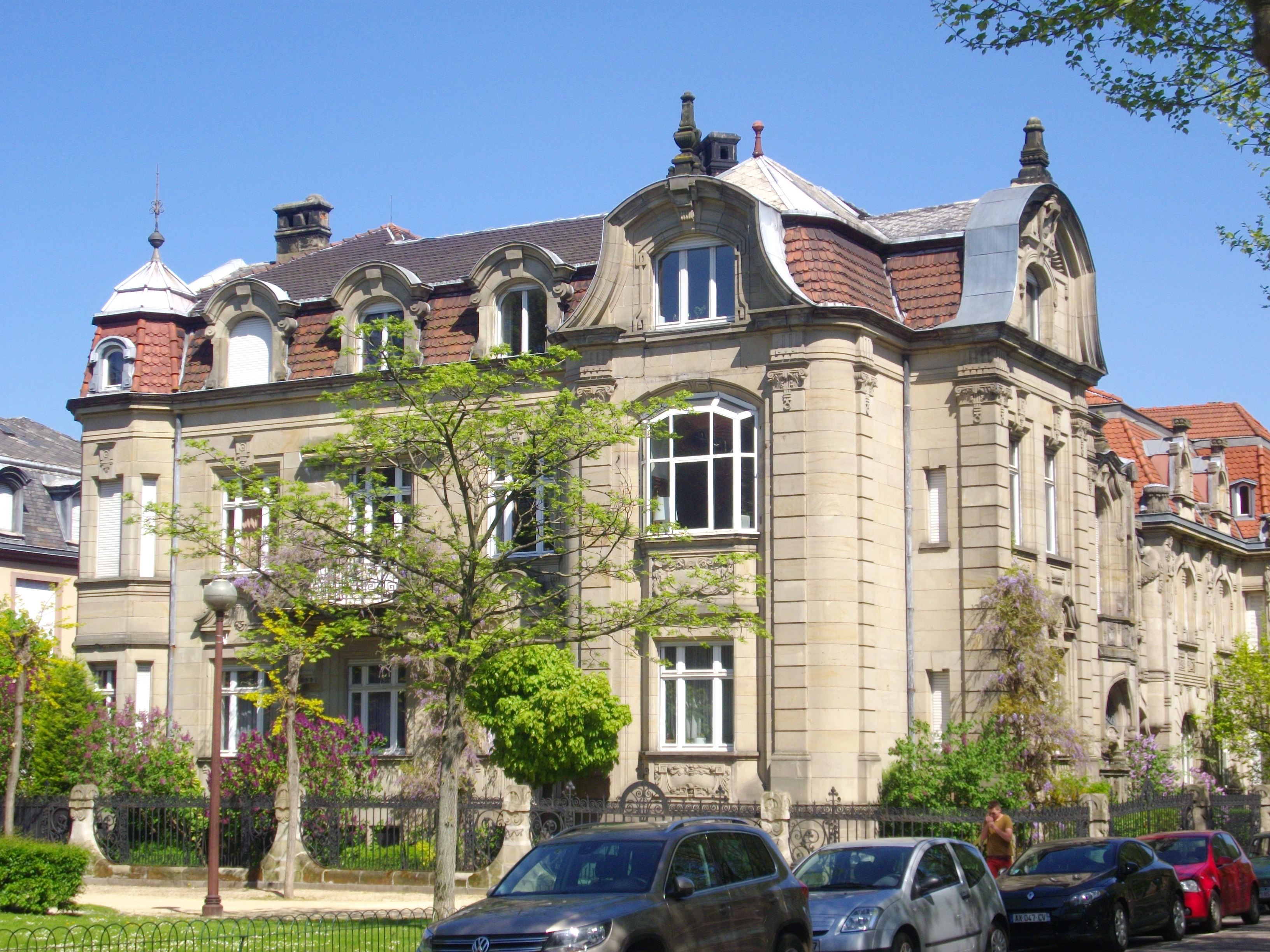 Building at 14 Foch avenue in Metz (Moselle, France)